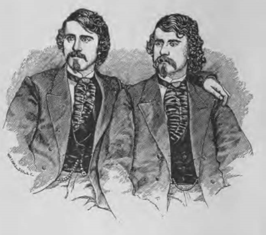 Sketch of the Davenport brothers.